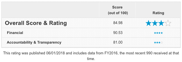 the chart of the score the organization got in the website